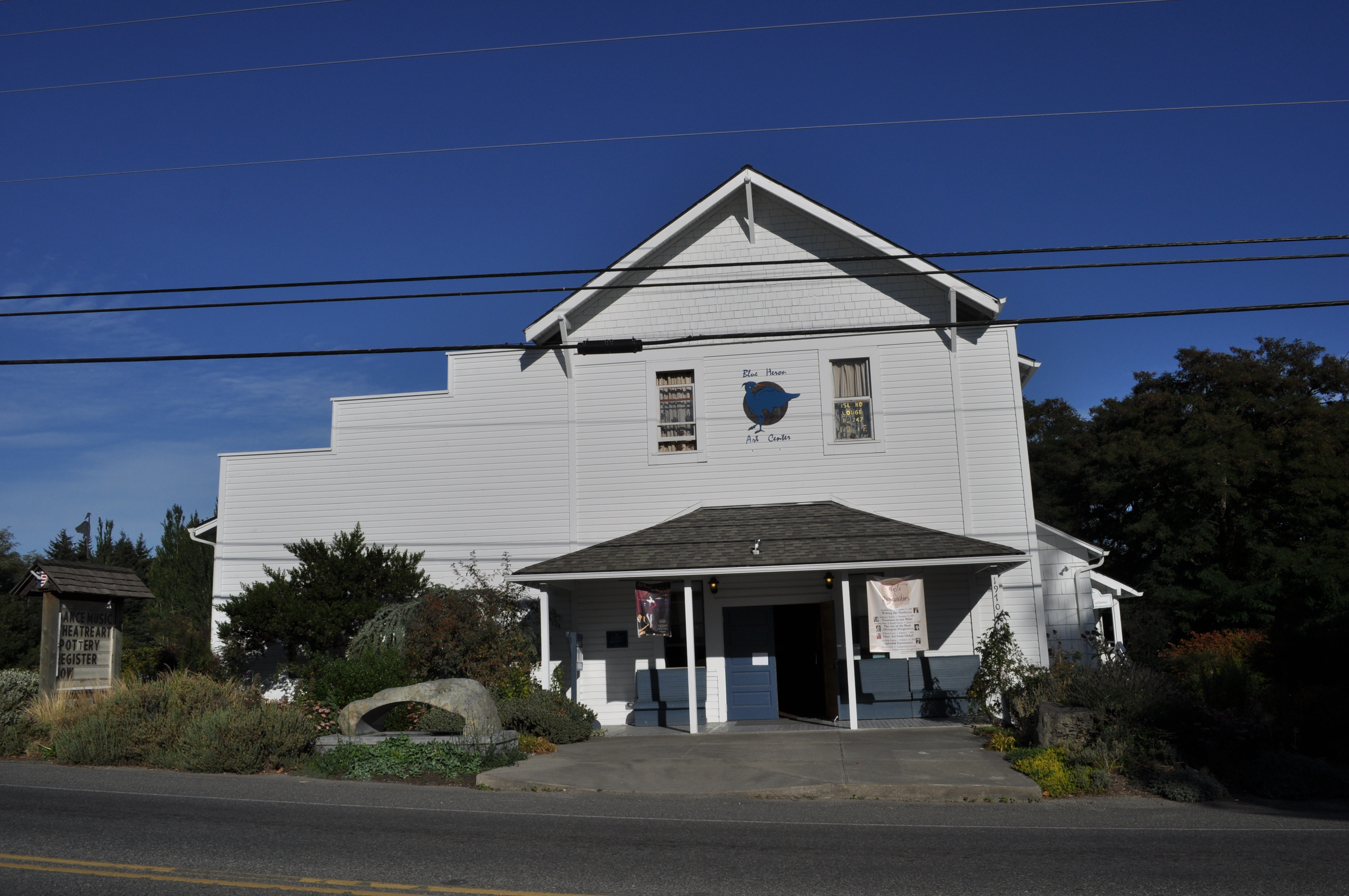 Former Odd Fellows Hall, now Blue Heron Art Center, 17601 Vashon Highway SW, Vashon, Washington. Listed as a King County landmark.